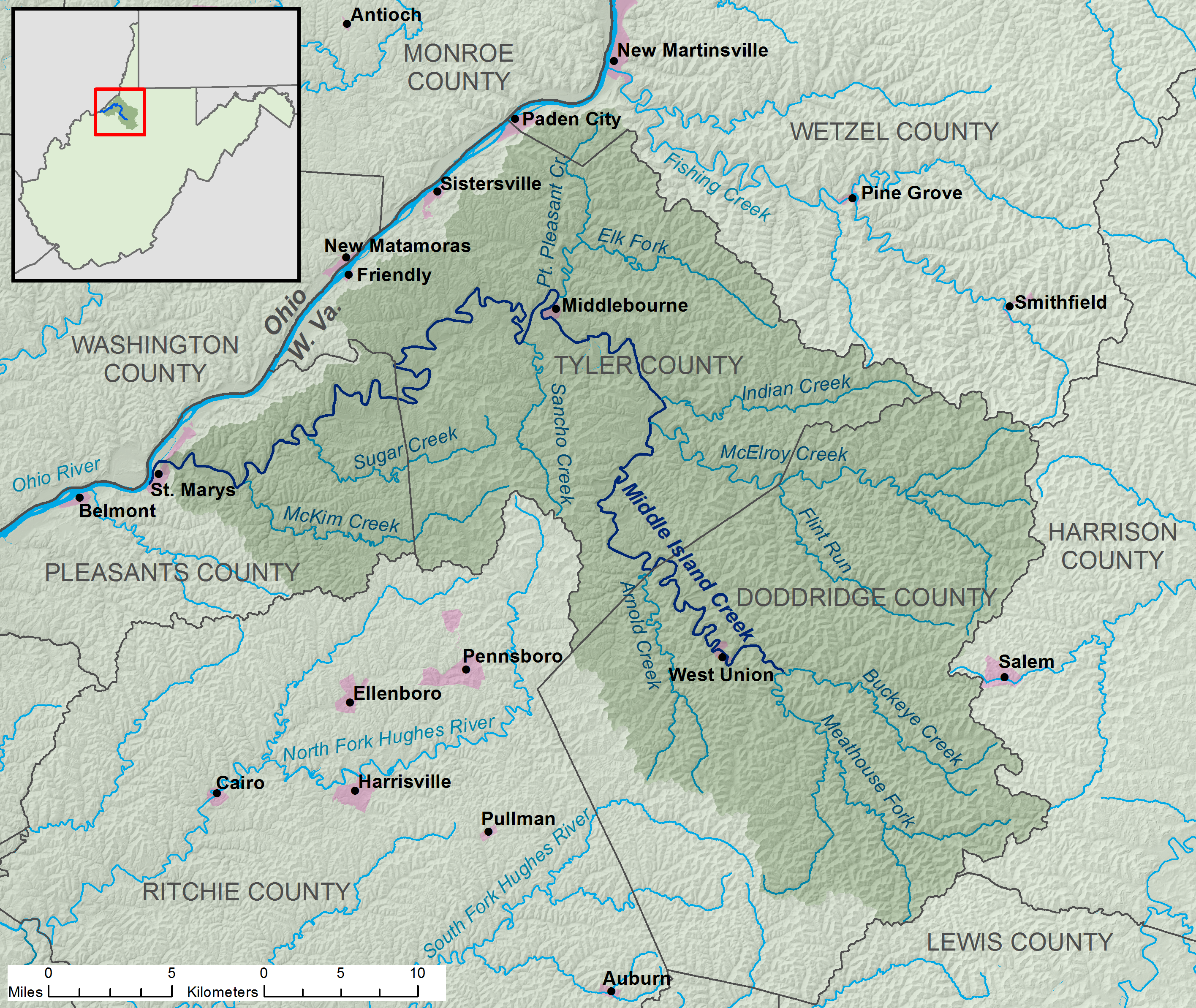 A map of Middle Island Creek and its watershed (USGS HUC-10 codes 0503020103, 0503020104, and 0503020105) in Doddridge, Wetzel, Tyler, and Pleasants counties in West Virginia.